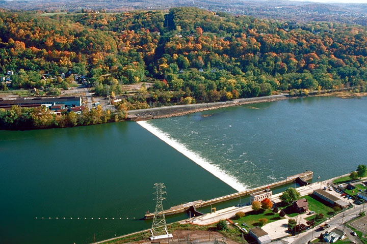 Lock and Dam Number 4 on the Allegheny River, Allegheny County, Pennsylvania, United States. Lock and Dam 4 was built from 1920-27, and opened in 1927.